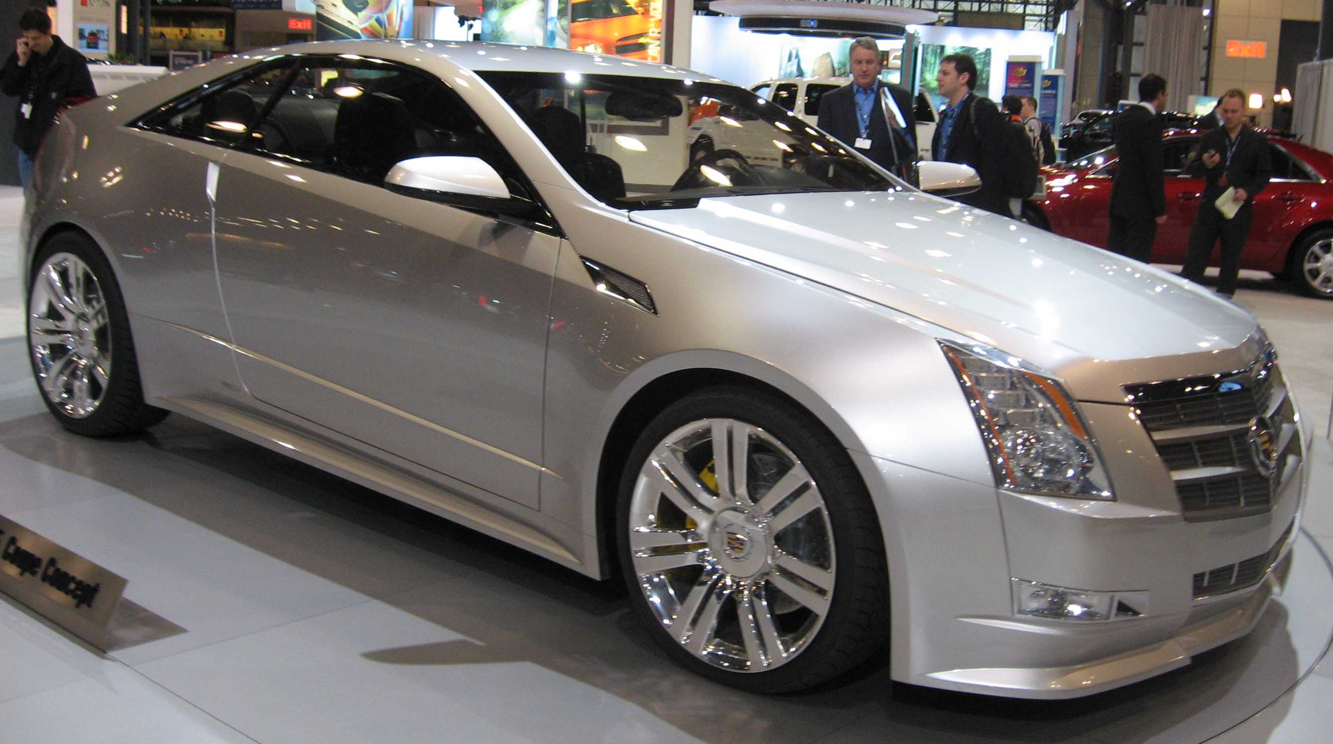 Cadillac CTS coupe concept photographed at the 2008 New York Auto Show.